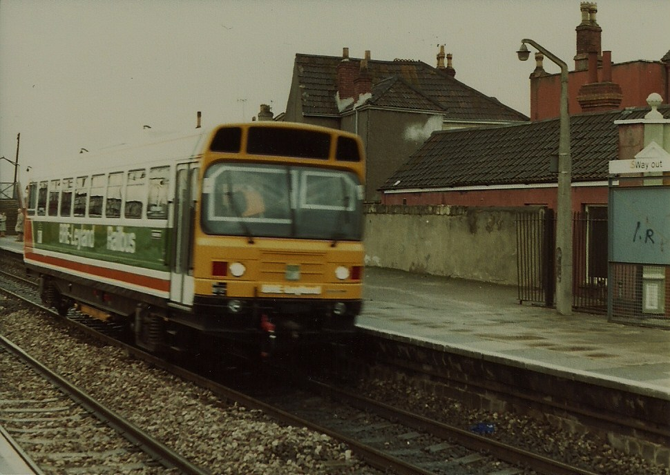 Apologies for the poor quality this is the only photo I got of LEV3, it is passing through Stapleton Road. For a short while it worked in the Bristol area on evaluation. At that time some Severn Beach line services ran through to Weston-super-Mare, and I rode it home one night after working late turn. 30/9/81